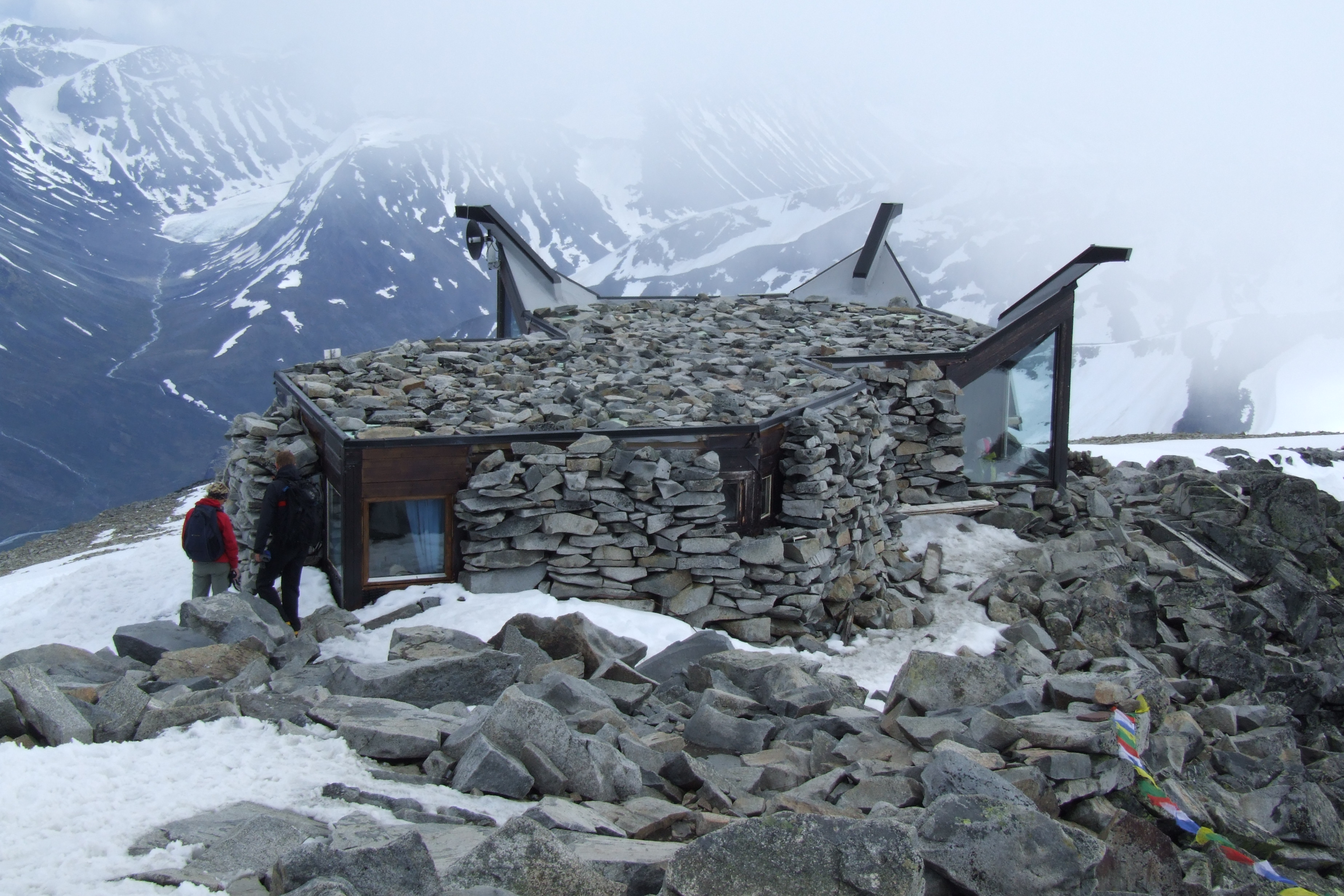 Knut Voles hytte - mountain hut on Galdhøpiggen, Norway